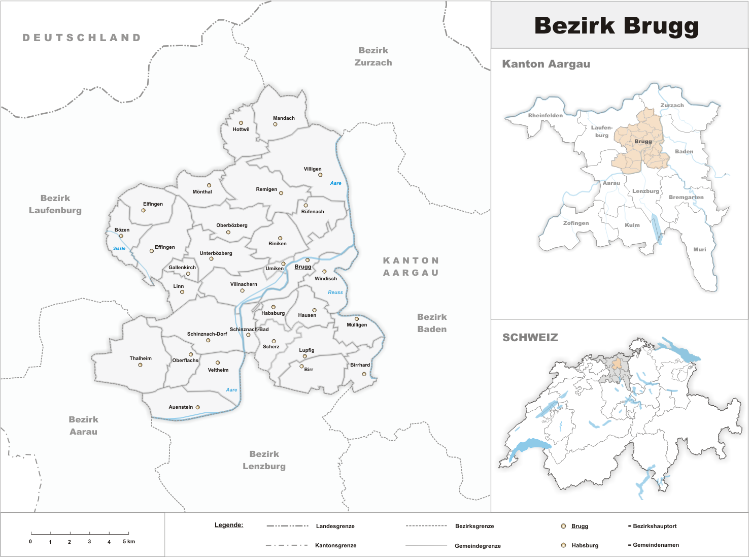 Municipalities in the district of Brugg